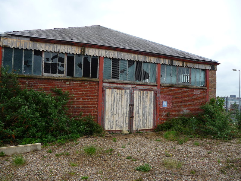 Gosport - Priddy's Hard